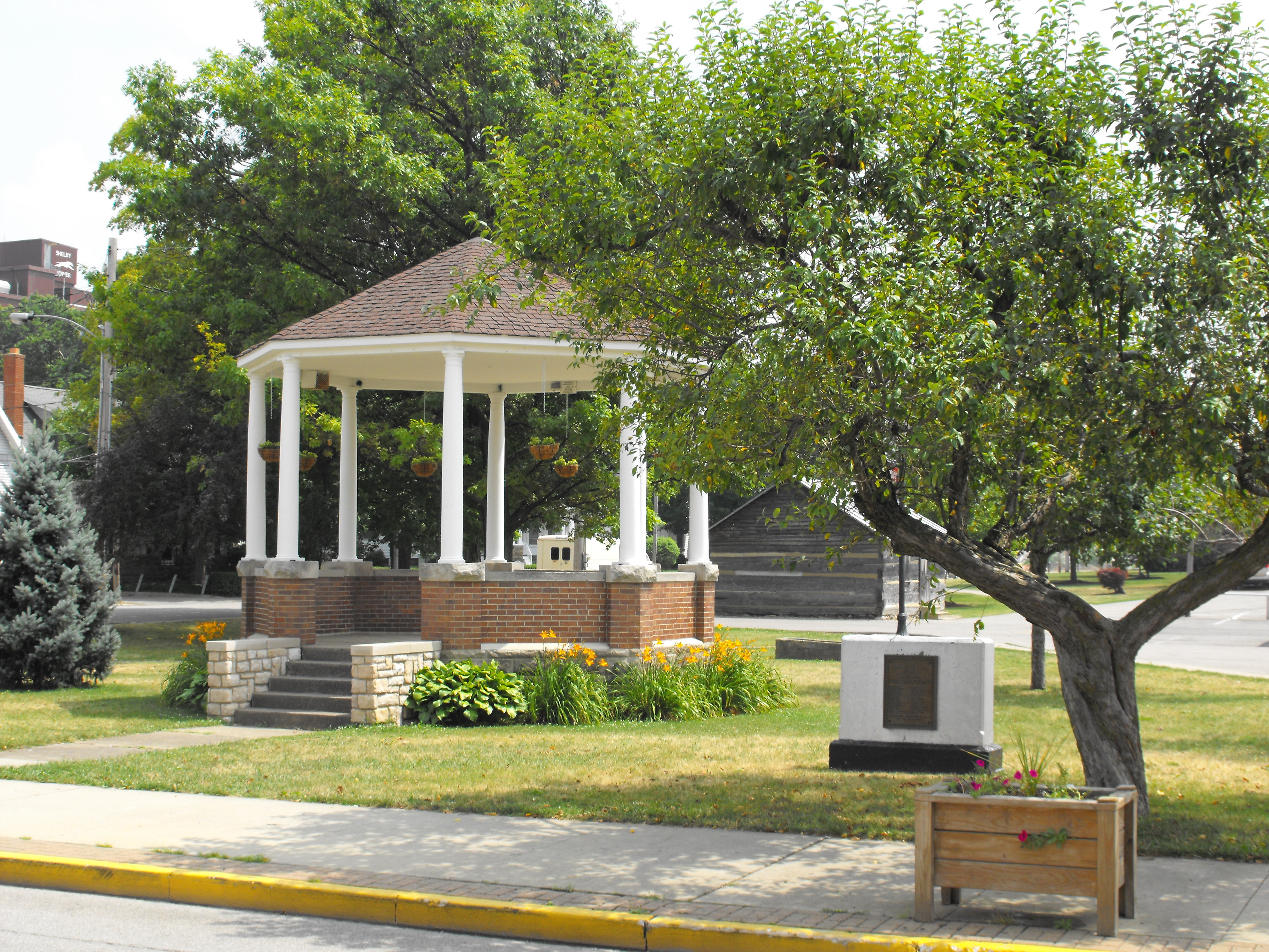 Shelby Central Park located on Main Street in downtown Shelby, Ohio